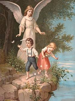 A guardian angel watches over children on a precipice.